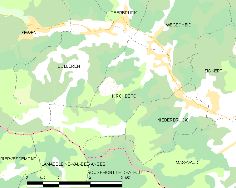 Map of French municipality